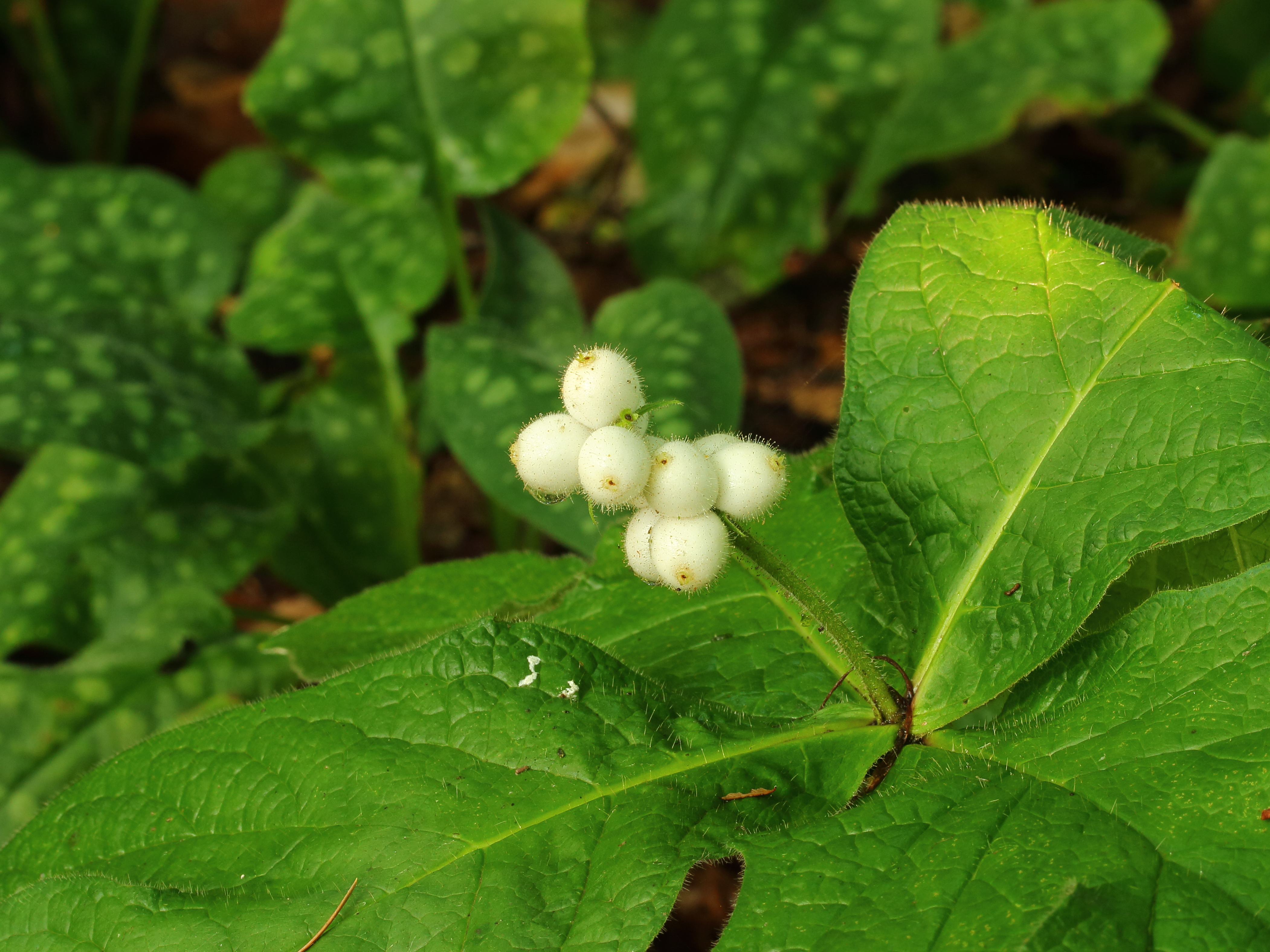 White berries Triosteum pinnatifidum. a beautiful plant from N. China in partial shade.